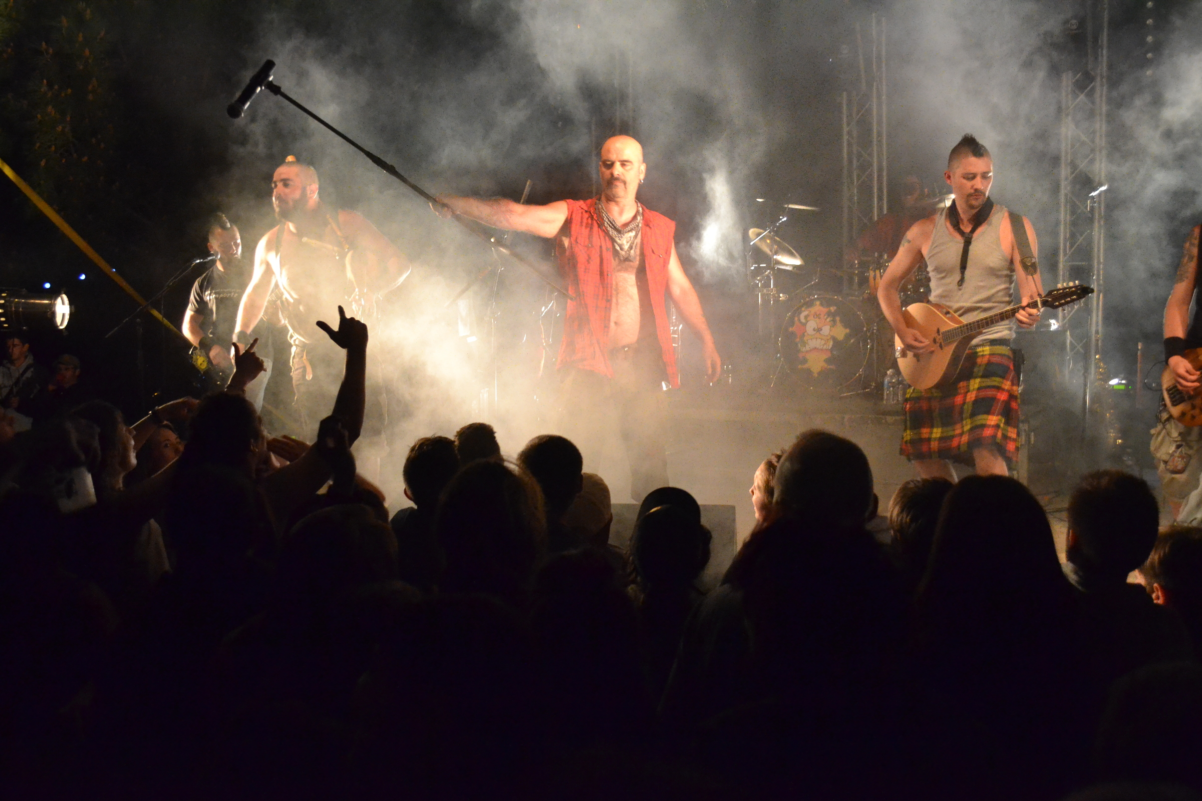 Goulamas'k during Premature Music Fest in Puisserguier.